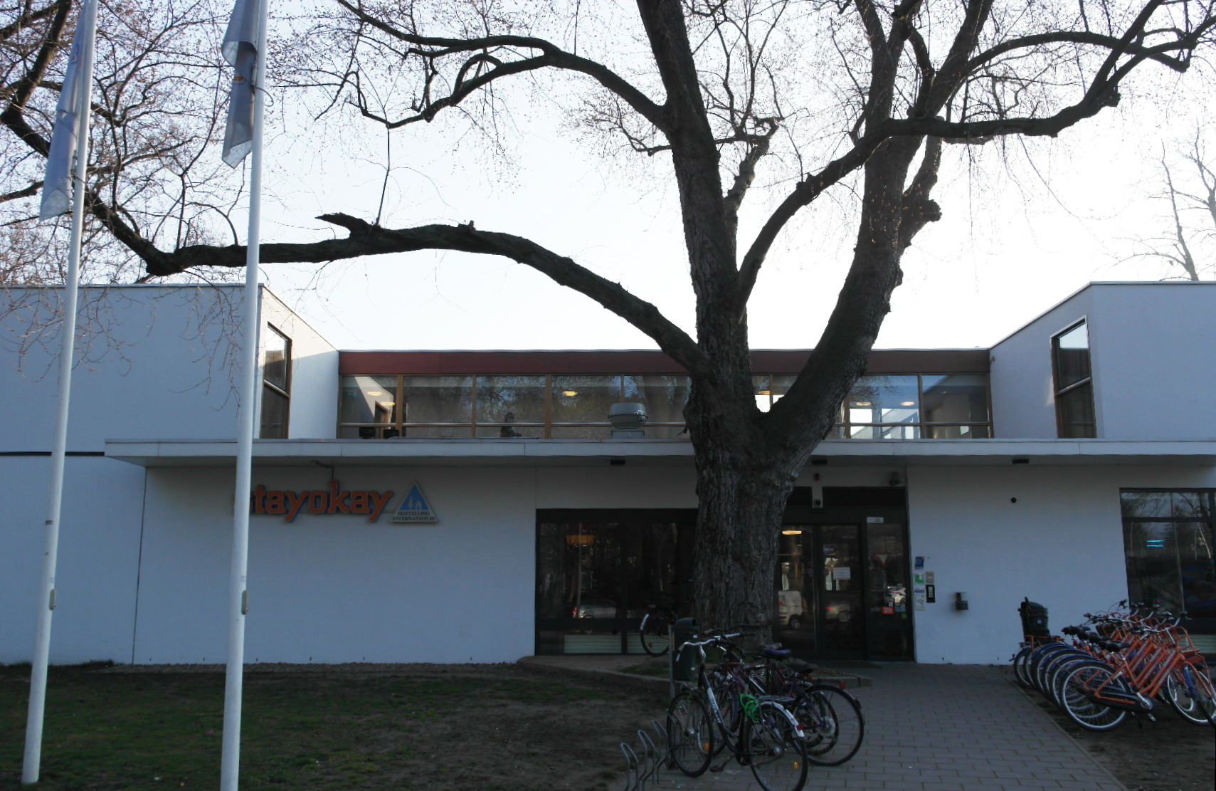 Maastricht, the Netherlands. Entrance area of Stayokay hotel on Maasboulevard.